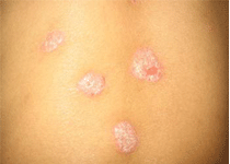 symptoms of psoriasis